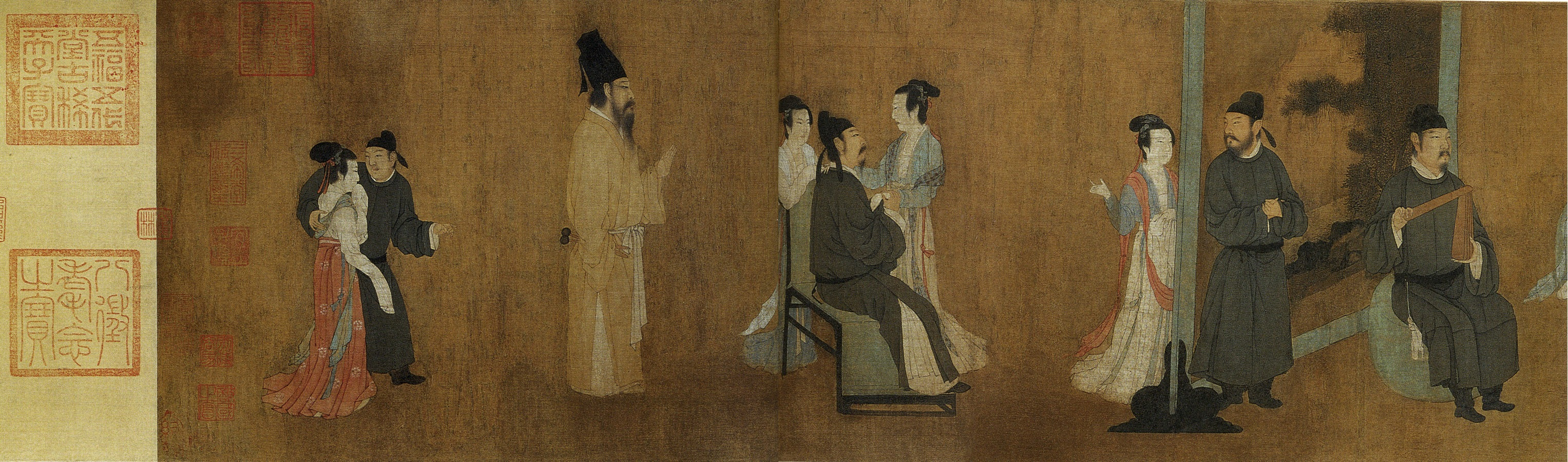 Night Revels